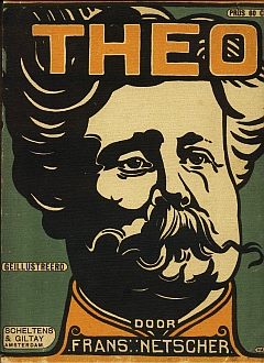 Portrait of Dutch politician Theo Heemskerk, M.P. from 1908-1913. Cover illustration of a book about Heemskerk by Frans Netscher. Drawing by Albert Hahn.